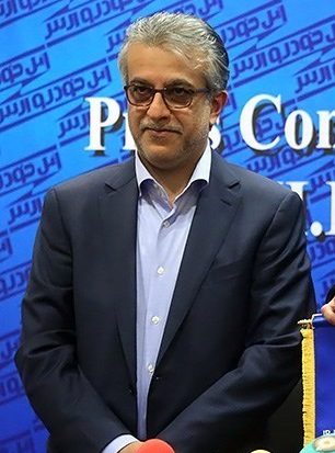 Salman Bin Ibrahim Al-Khalifa, President of Asian Football Confederation during a joint conference with FIFA President Sepp Blatter and Football Federation of Iran President Ali Kafashian in Parsian Azadi Hotel, Tehran